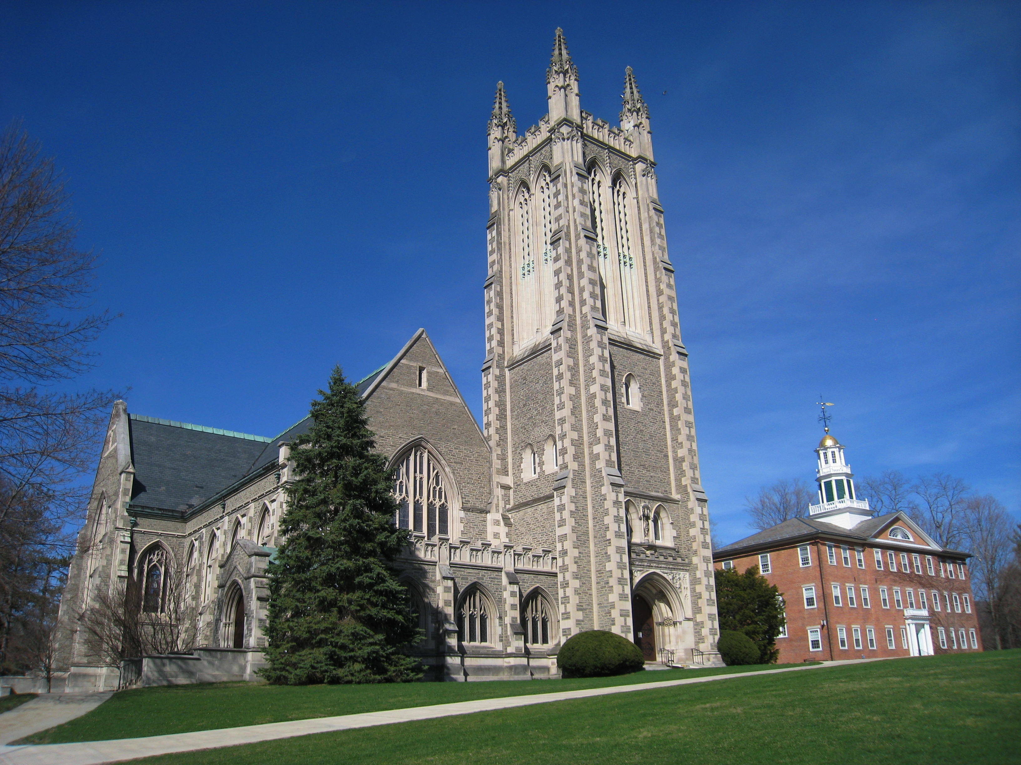 Williams College - Thompson Memorial Chapel exterior view. Williamstown, Massachusetts, USA.